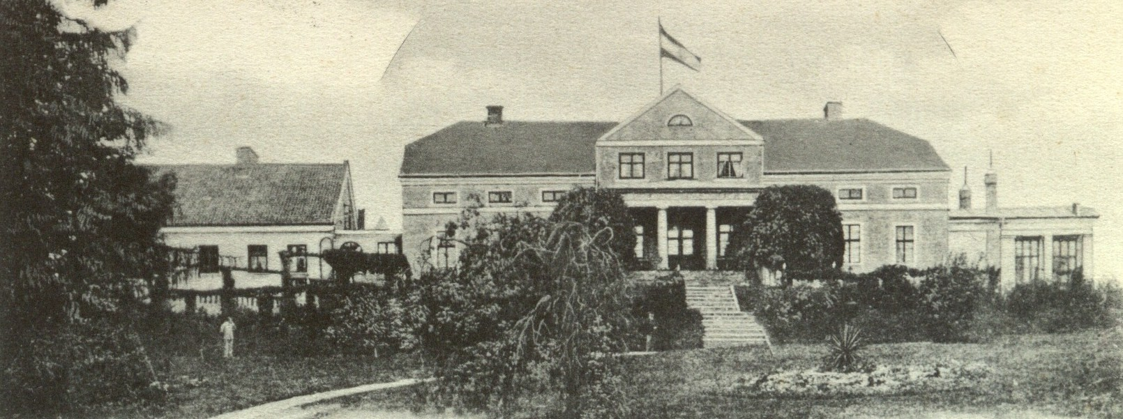 Boże - Manor of Dominium Bosem (~1910), Ferdinand Rogalla von Bieberstein (1857-1945)